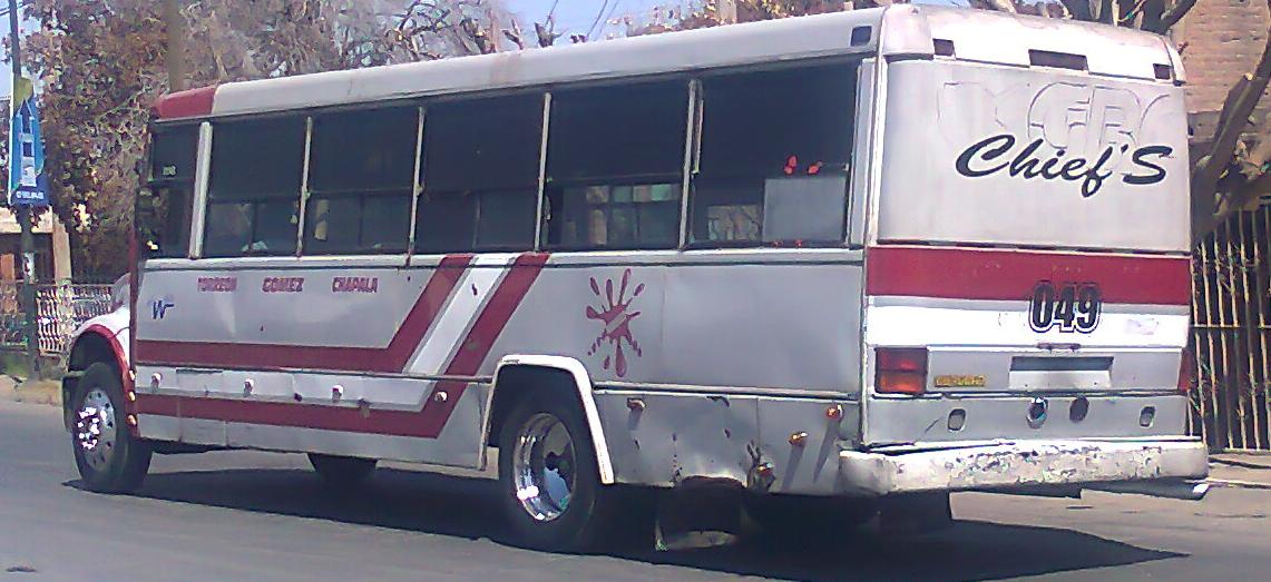 A Transportes del Nazas bus under the brand Torreón-Gómez-Chapala.